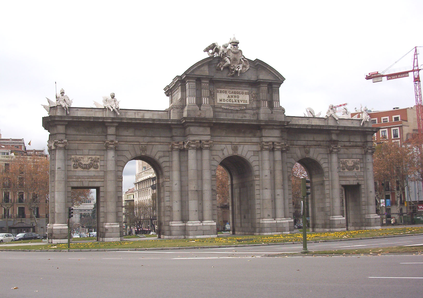 East façade of the Puerta de Alcalá (Madrid, Spain, 1774–1778). Architect: Francesco Sabatini (1722–1797).